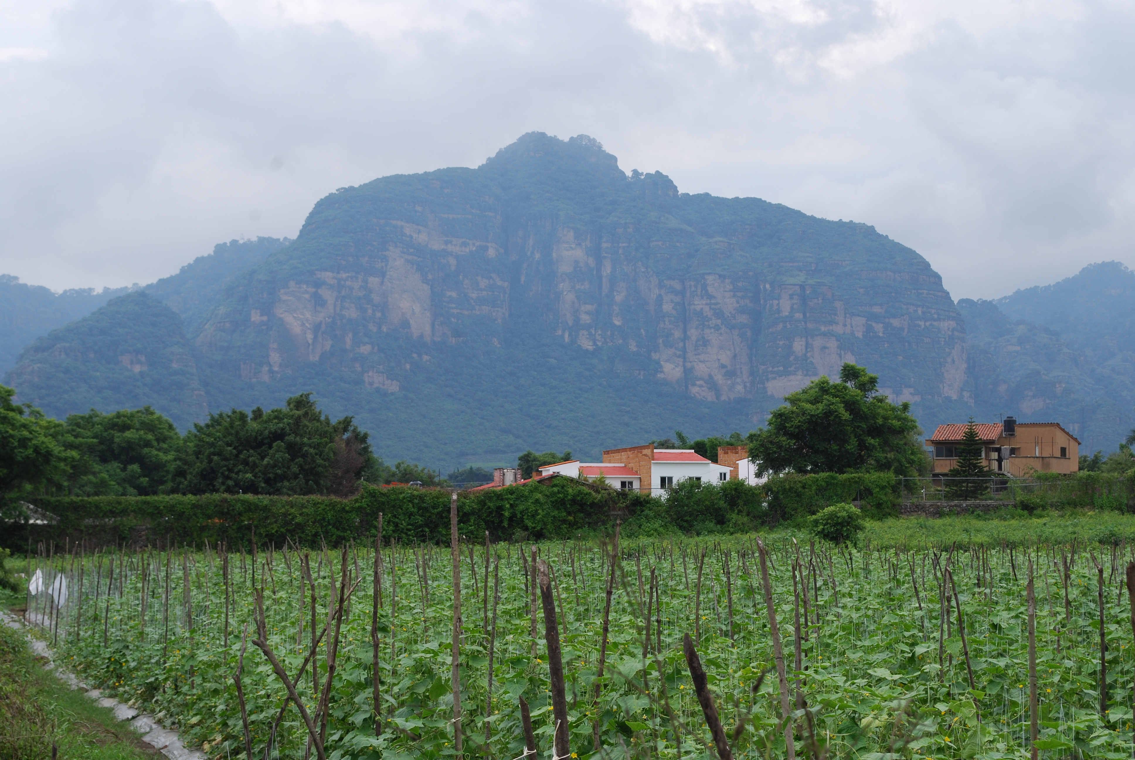 Fields and mountains in Tlayacapan, Morelos, Mexico